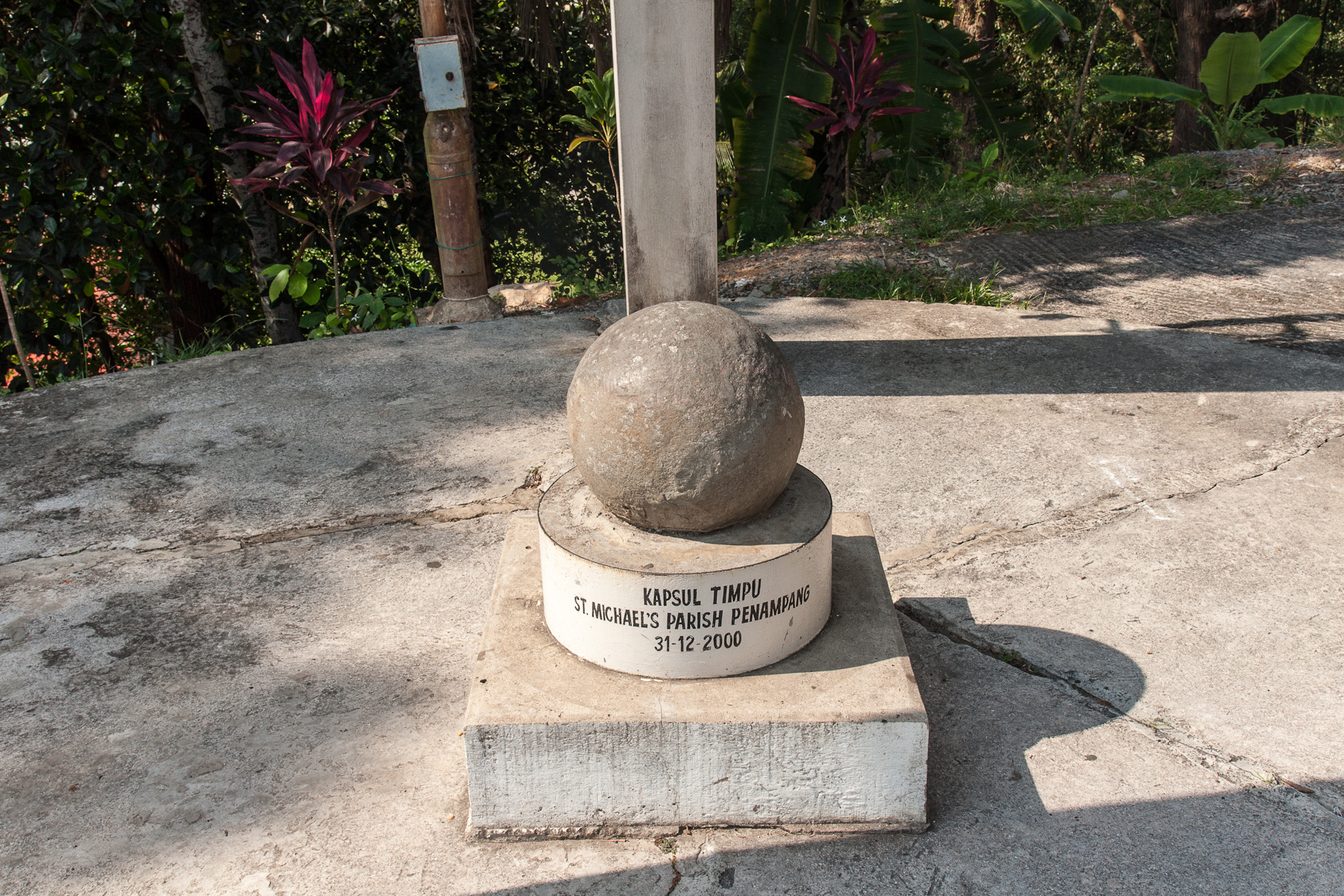 Penampang, Sabah: St. Michael Church Donggongon, View from East